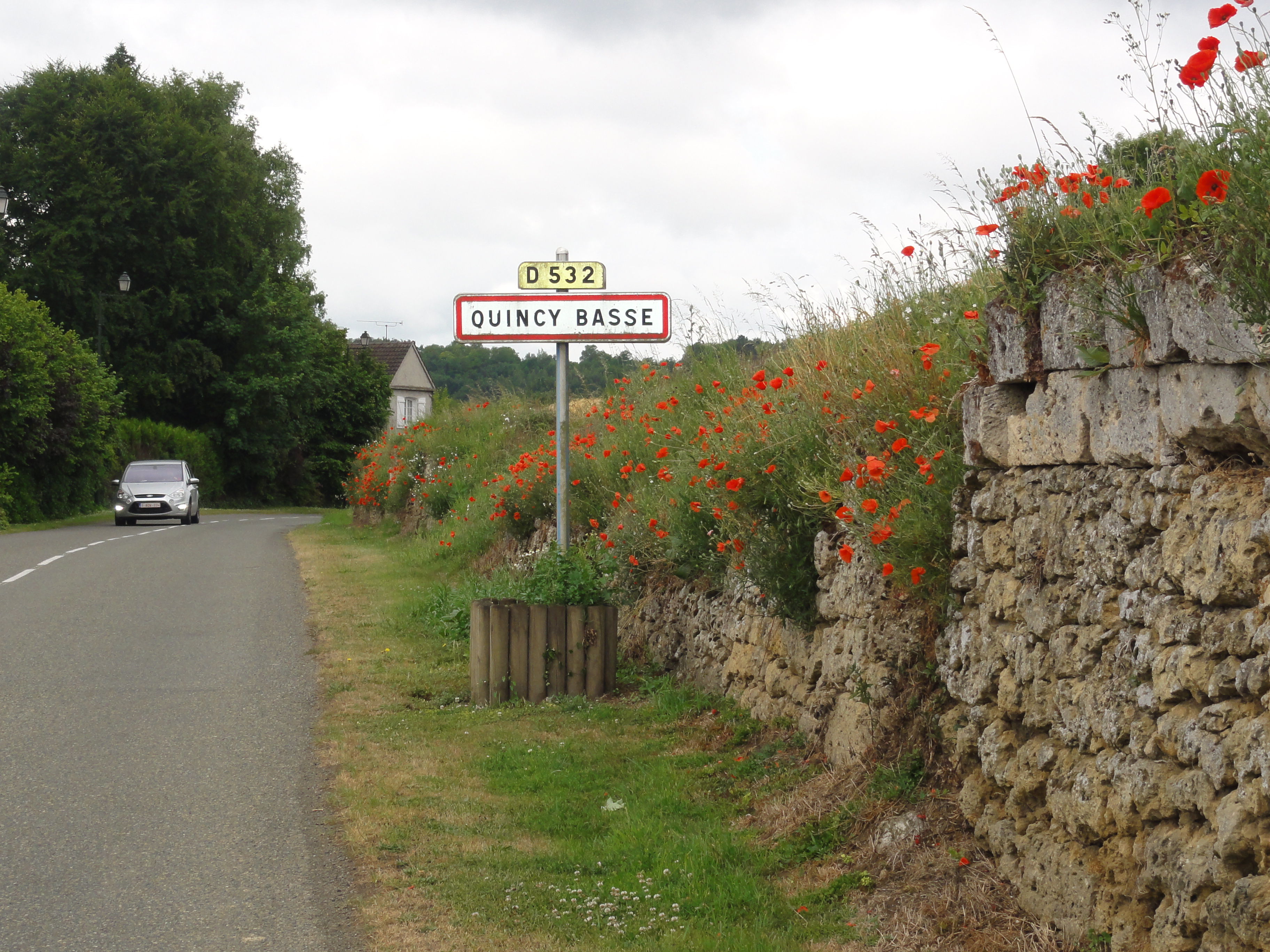 Quincy-Basse (Aisne) city limit sign